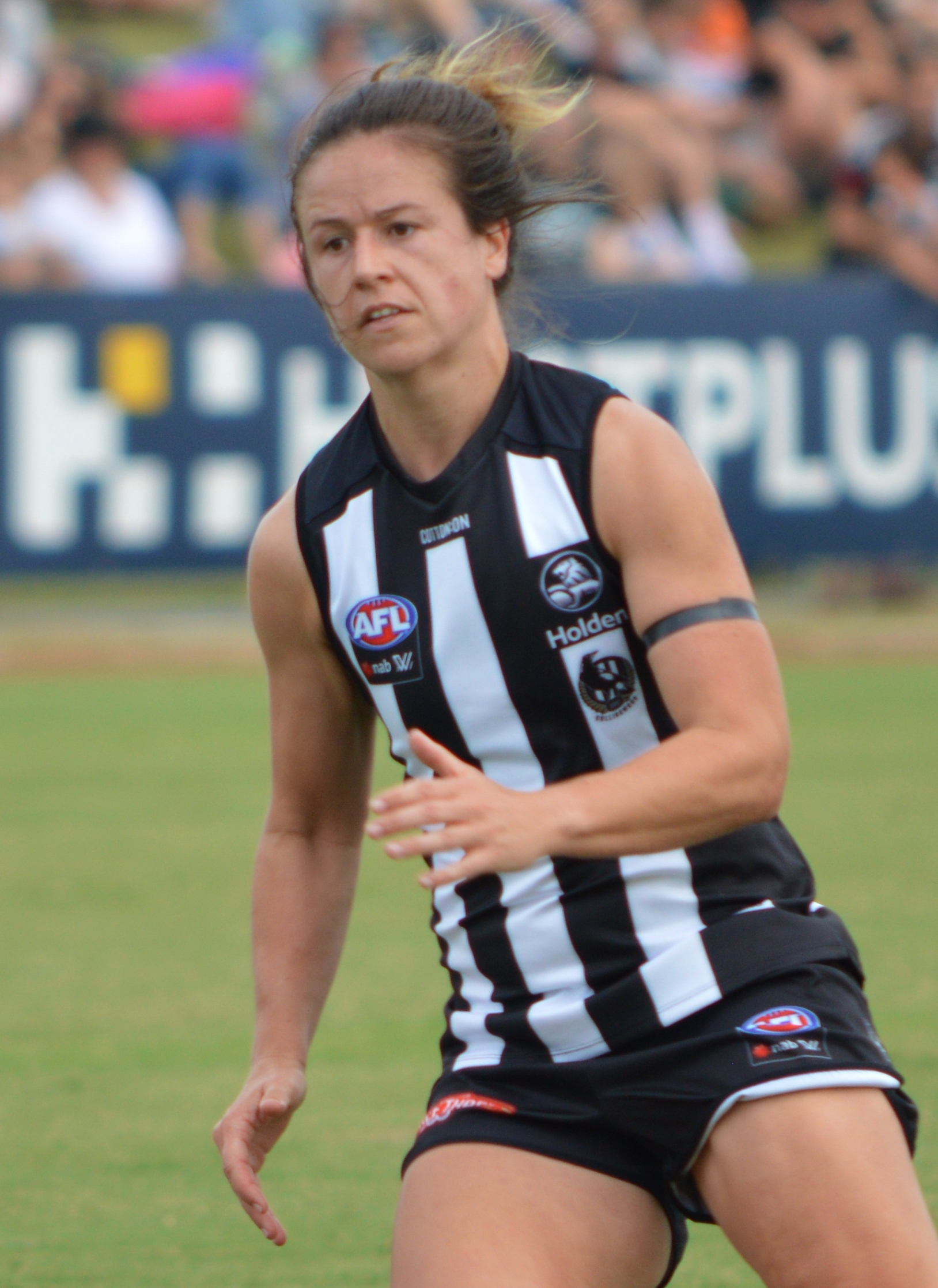 Sophie Casey during the round 3, 2018, AFL Women's match between Collingwood and Greater Western Sydney